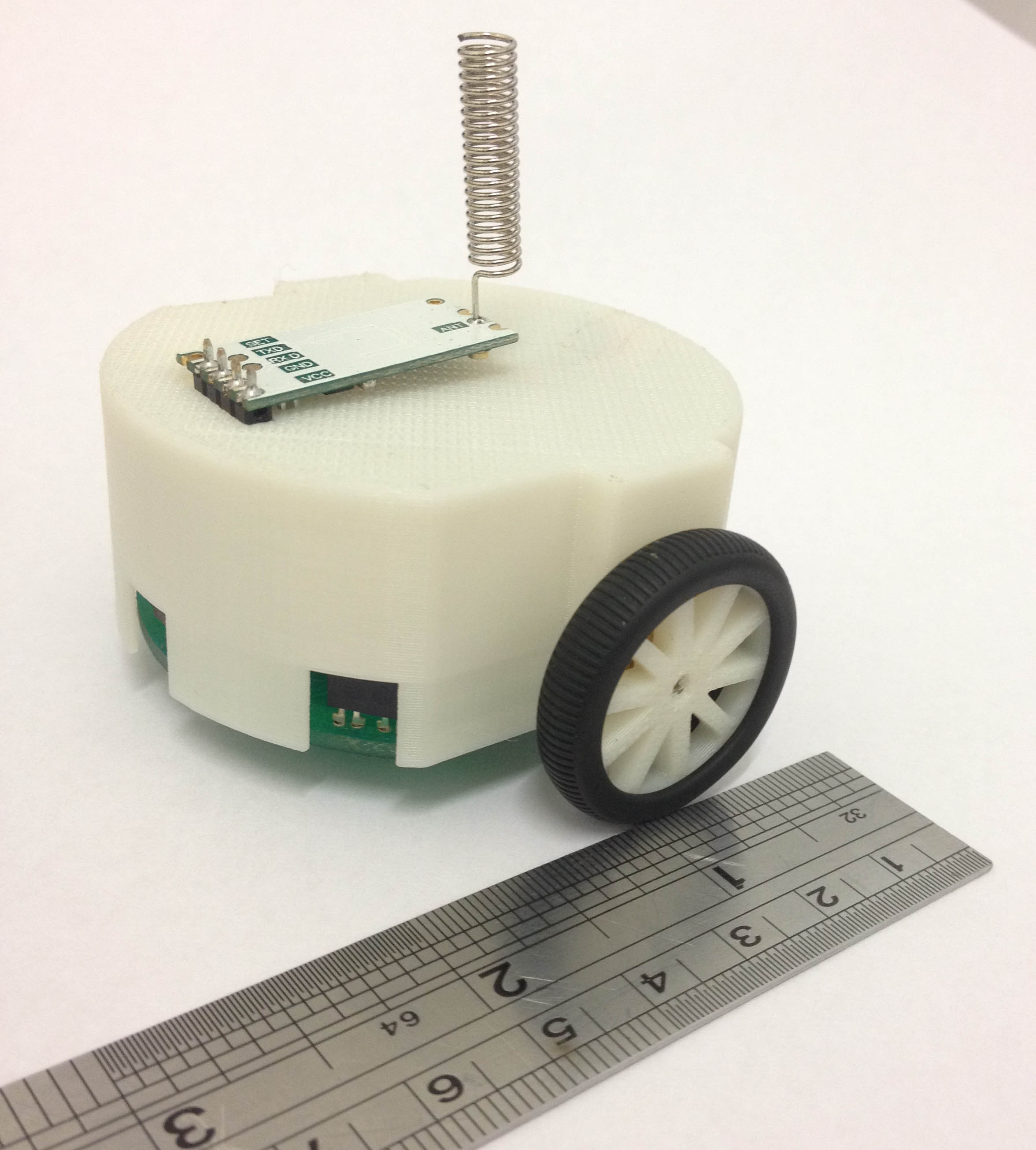 Mona robot designed at University of Manchester Robotic Group for Perpetual Robotic Swarm